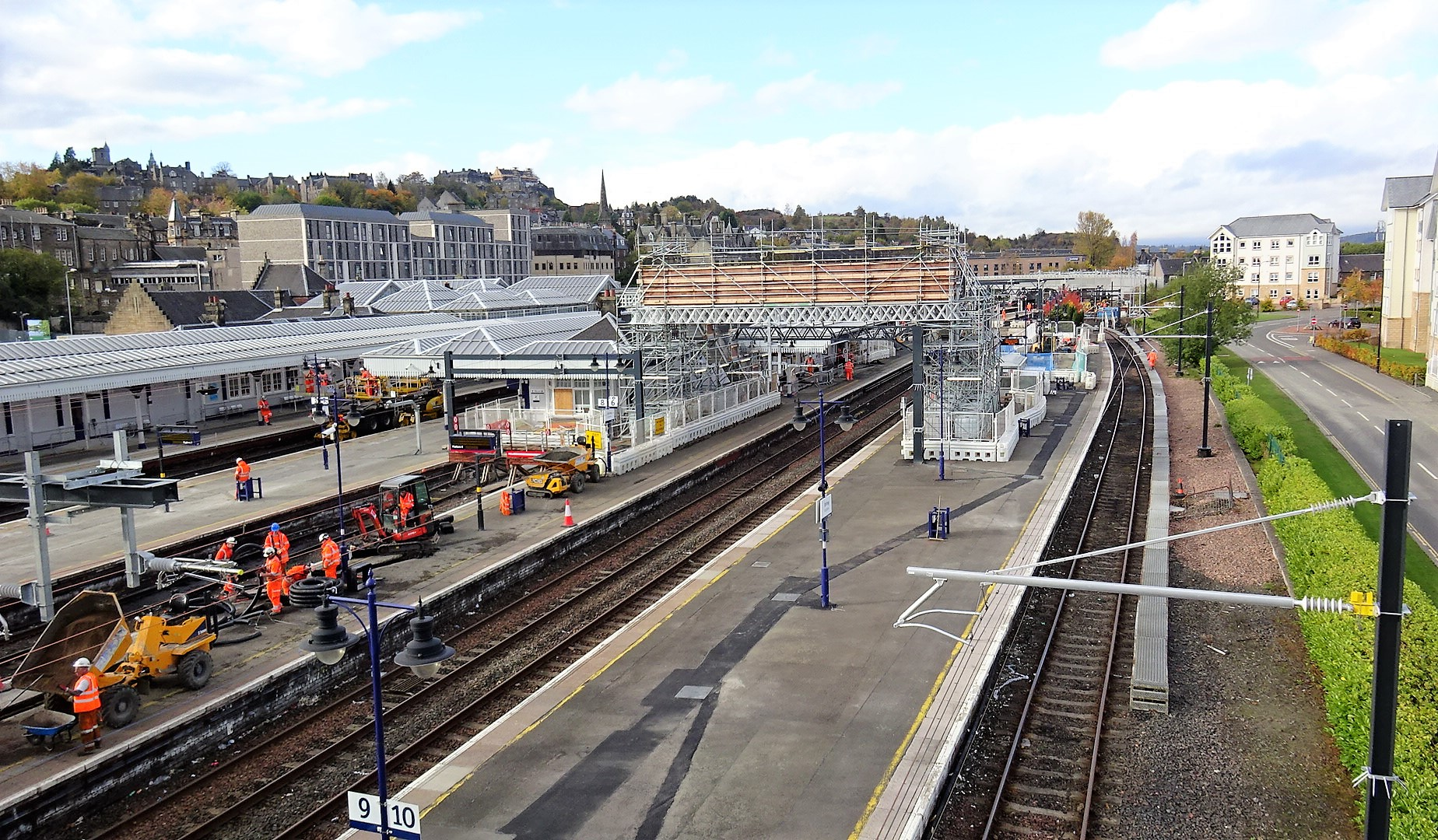 Stirling railway station, electrification catenary erection, view north-west from footbridge, Scotland.